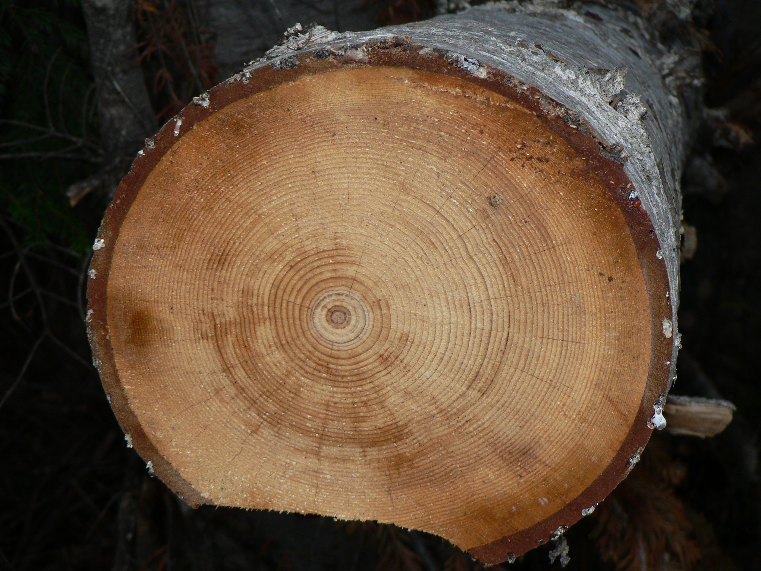 Pacific Silver Fir